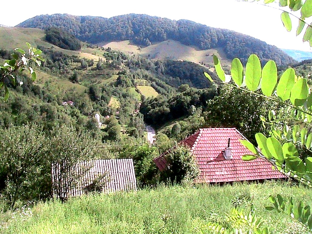 Buceș-Vulcan Pass